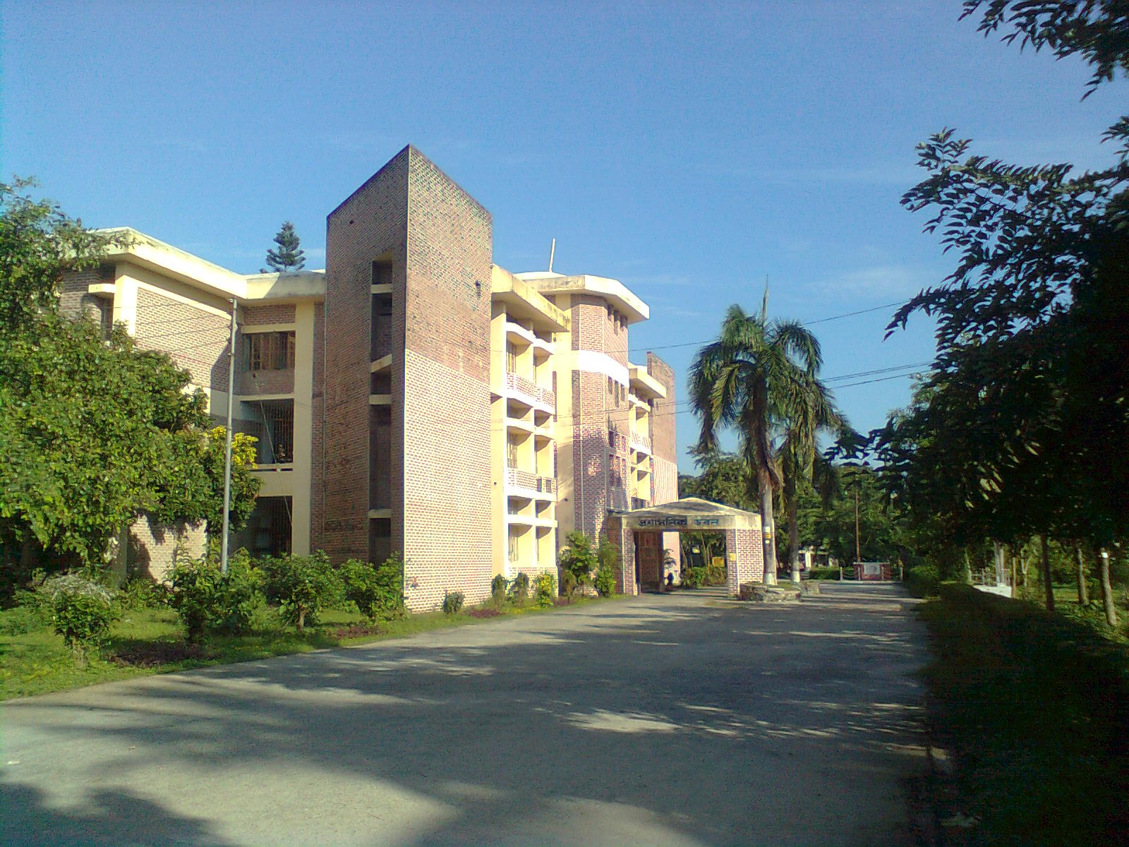 Dinajpur